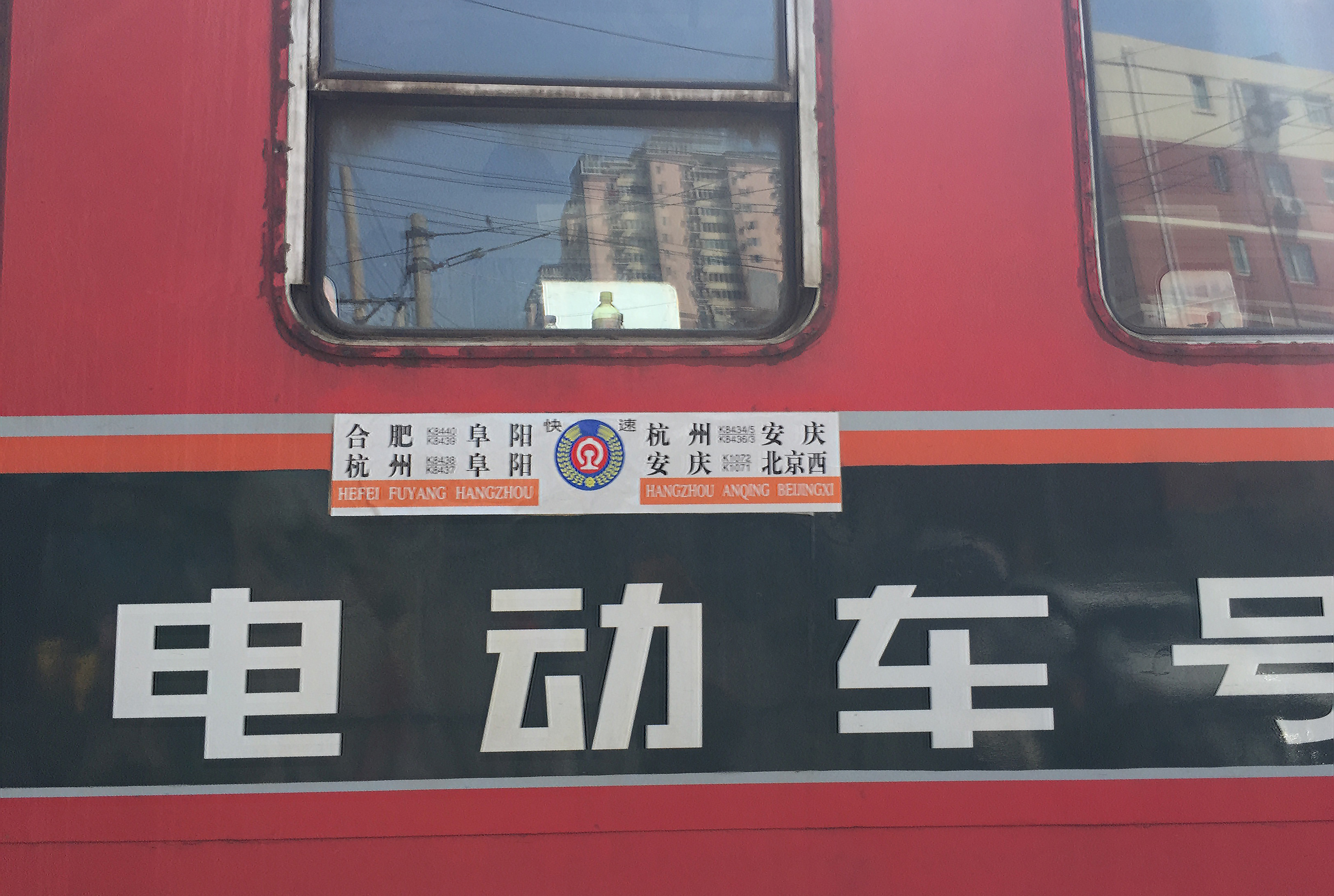 New mode for K1072.